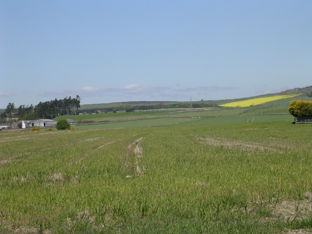 Gagie Smallholdings from Bucklerheads. This view is taken from the extreme south east corner of the box looking north north west